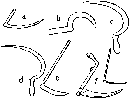 Two-color illustration of various sickles and scythes: a, b, c, d) reaping hooks or sickles, dating from the Stone and Bronze ages e) ? f) Hainault scythe (sith) with "mathook"